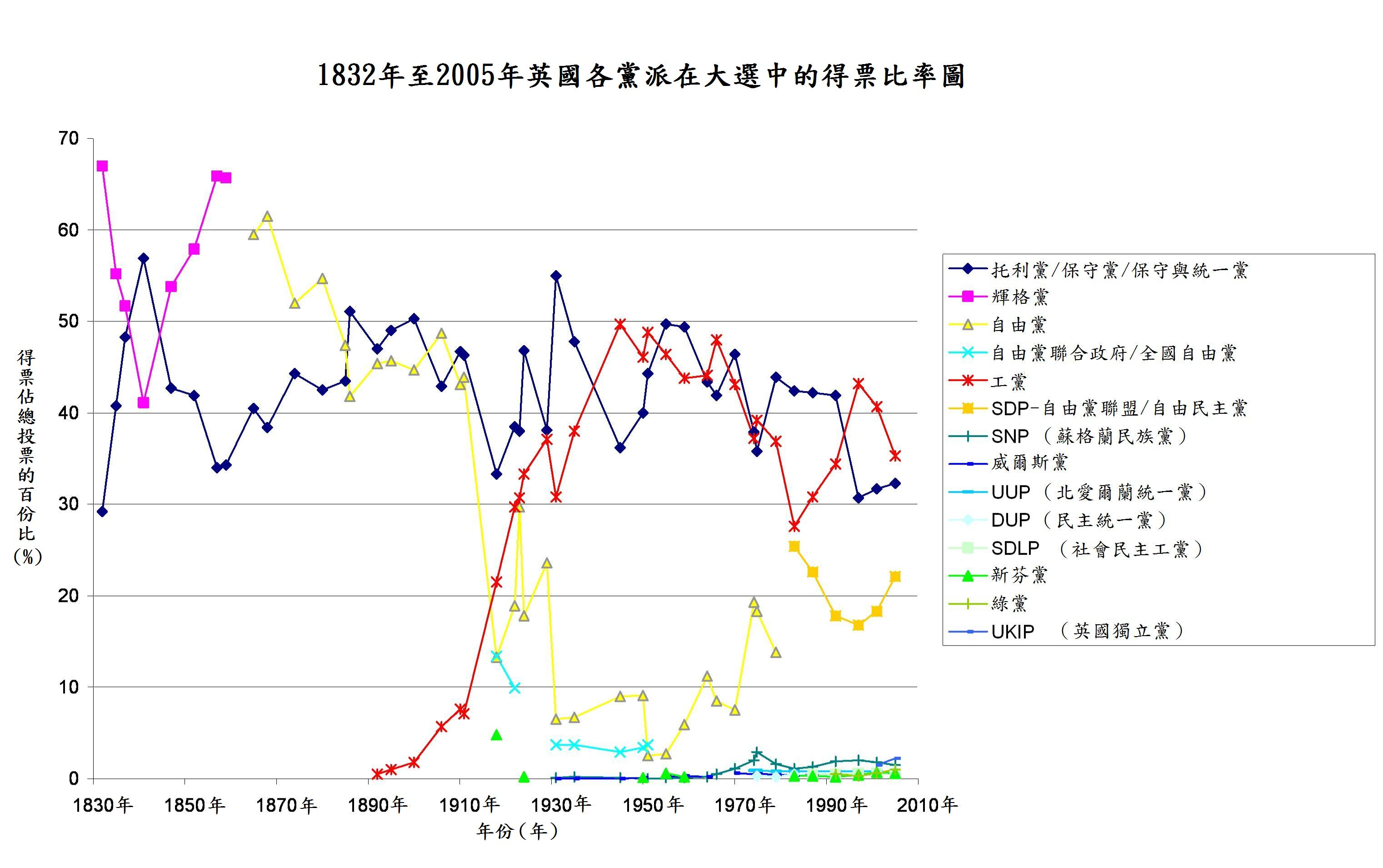 Popular Vote by Party in UK General Elections, 1832 to 2005